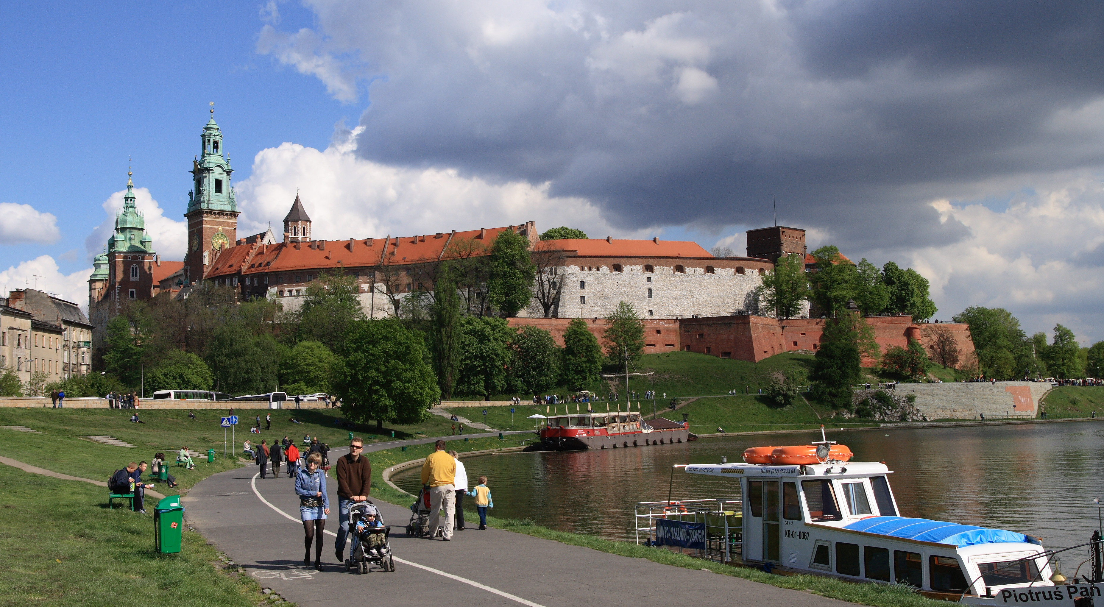 Wawel Hill with Royal Castle as seen from the Vistula river boulevard.